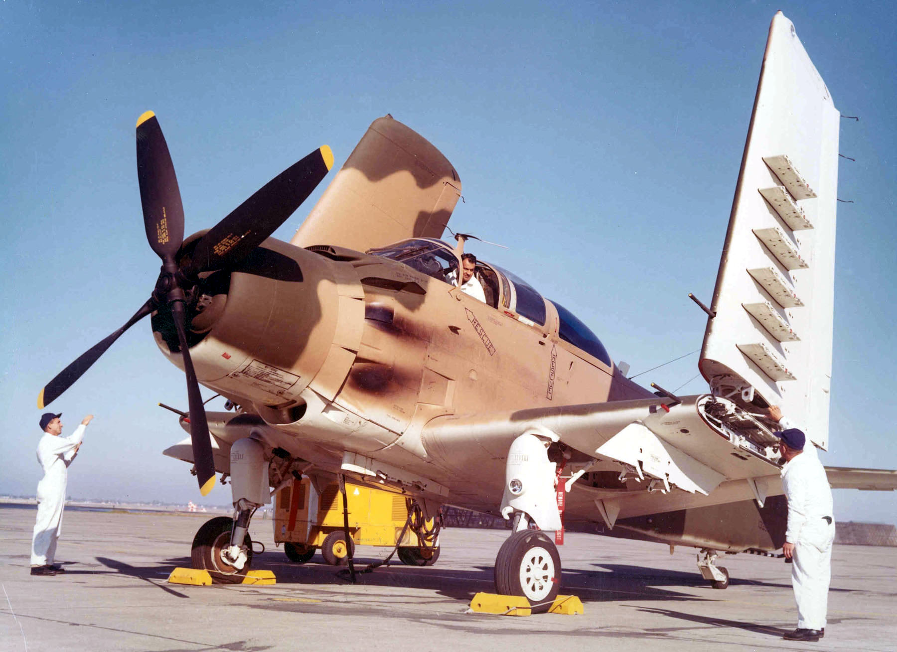 Douglas A-1E with wings folded at McClellan Air Force Base, Calif., on Feb. 15, 1968. (U.S. Air Force photo)